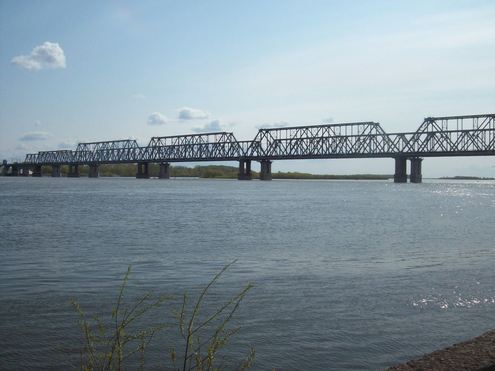 Railway bridge across the Ob river in Kamen-na-Obi